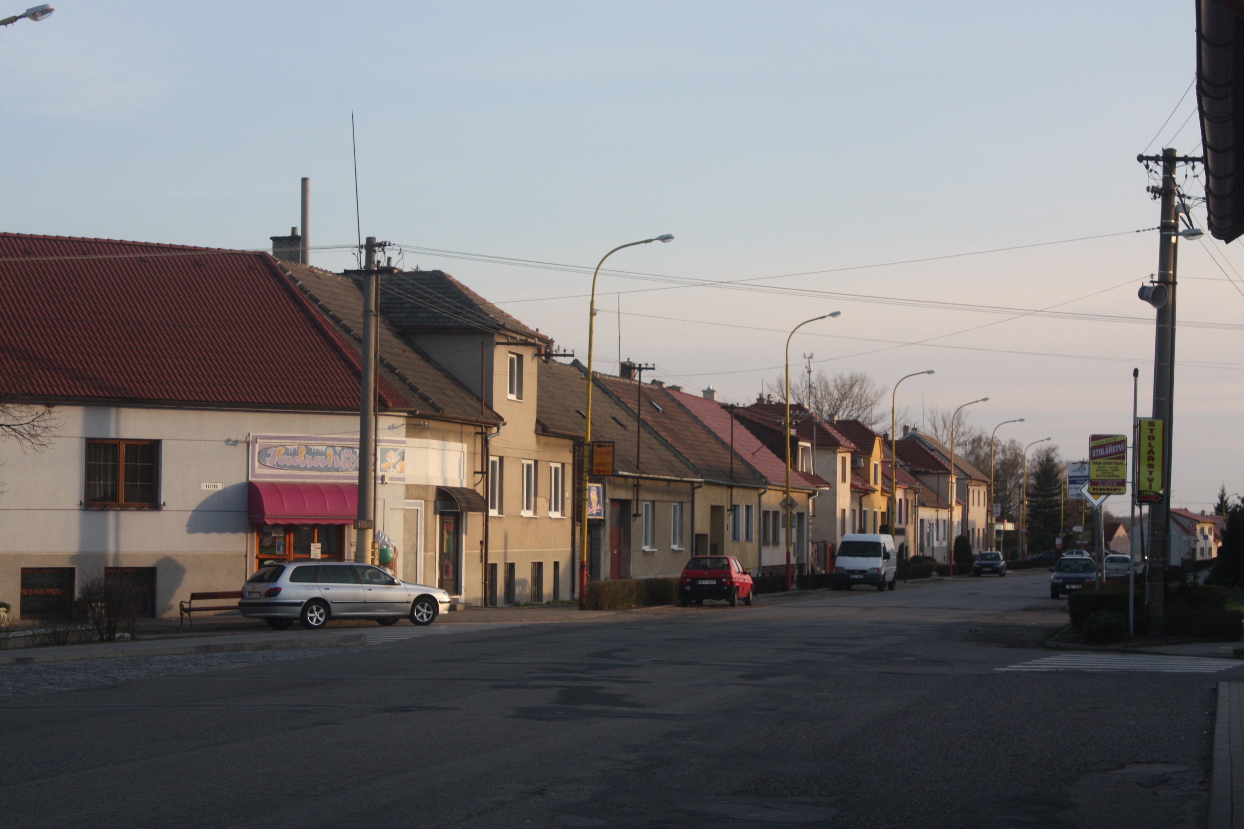 Rohatec (Hodonín district, Czech Republic) - main street